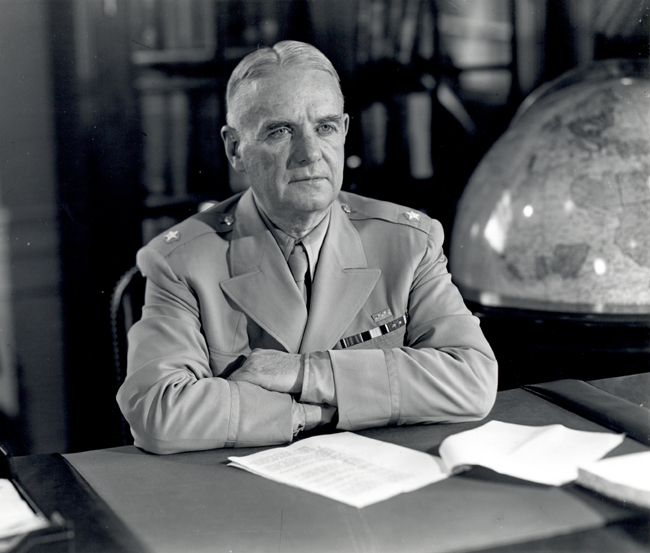 William Joseph ('Wild Bill') Donovan, Head of the OSS (National Archives Identifier 6851006)